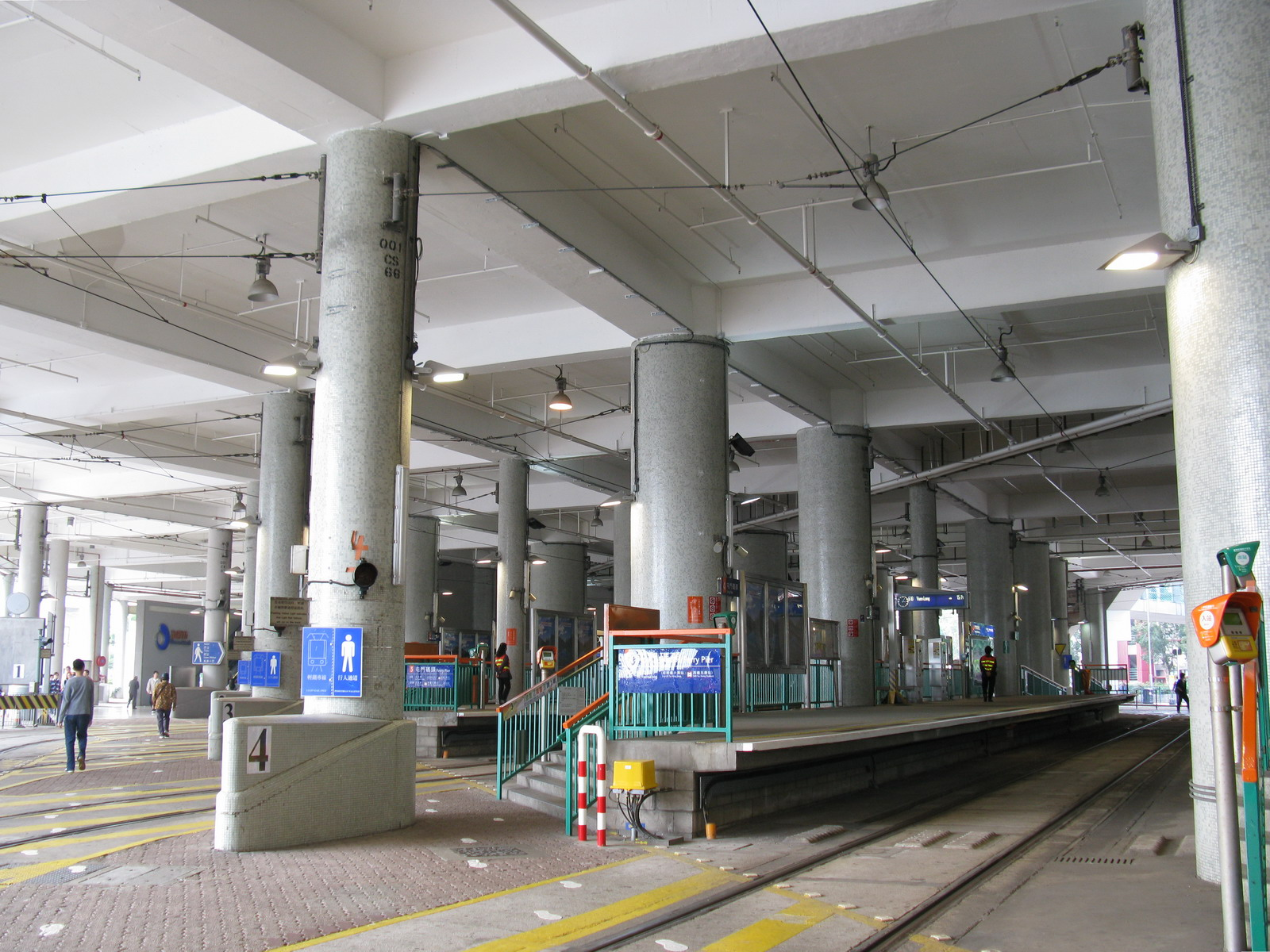 Ferry Pier Terminus, Light Rail. 中文（香港）: 輕鐵屯門碼頭總站。